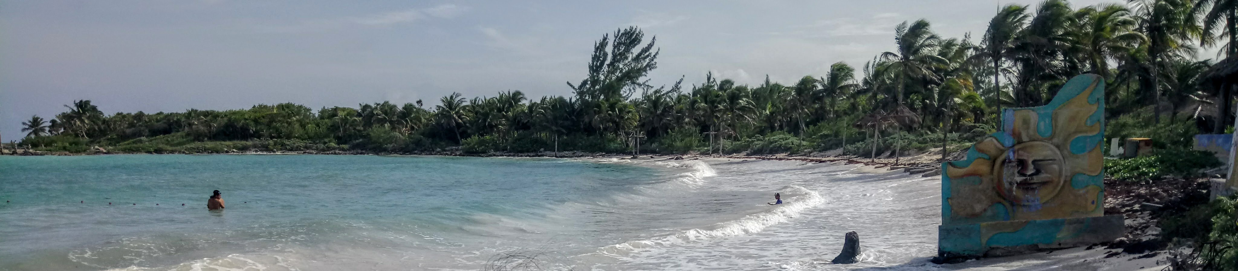 Xpu-Ha,Mexico,beach